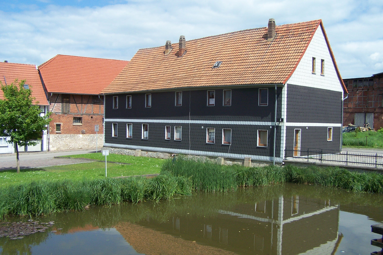 The access yard in Berka vor dem Hainich.